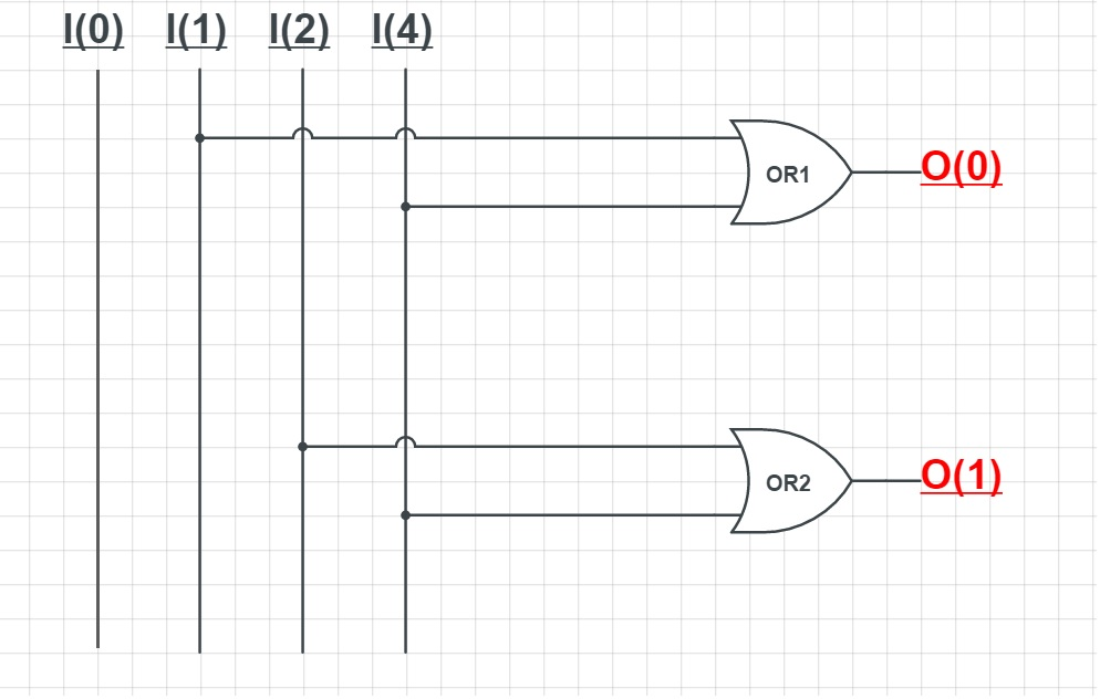 A Simple 4:2 encoder using OR gate.The line for I(0) is left alone as there is no need for connecting as the neither of the outputs depend on it.